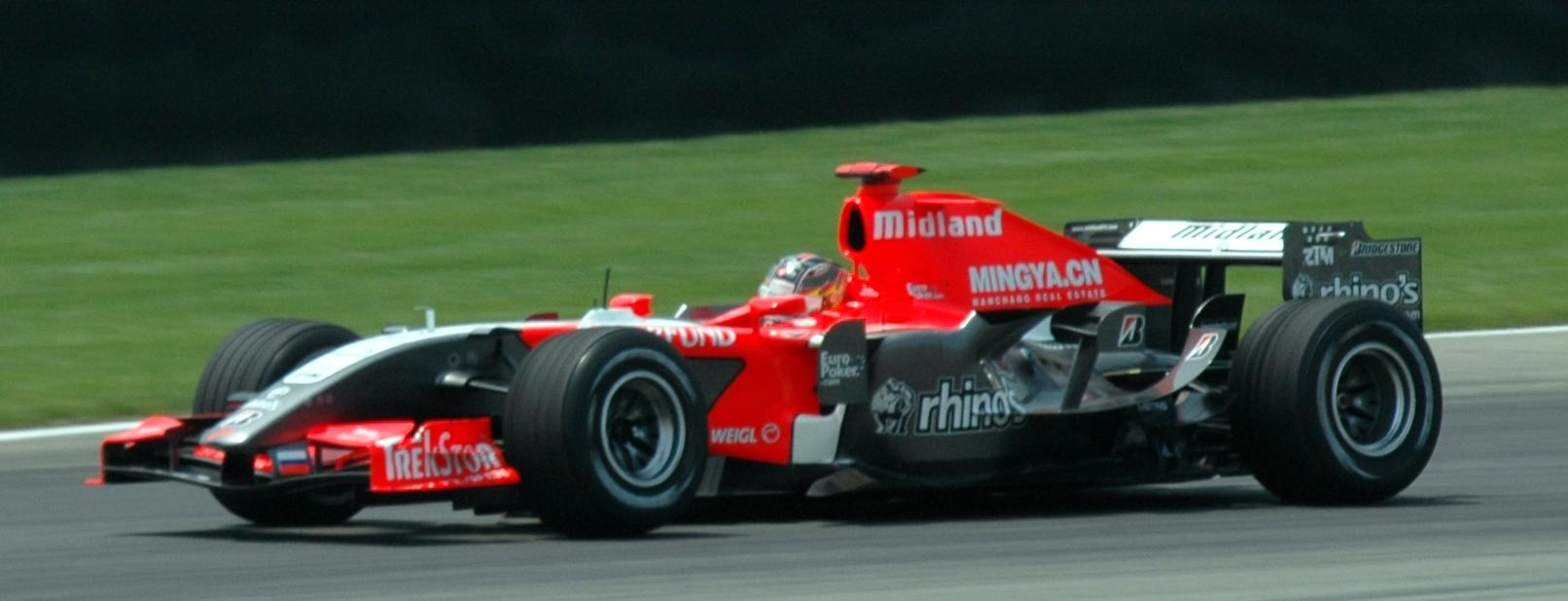 Tiago Monteiro driving for MF1 Racing at the 2006 United States Grand Prix.